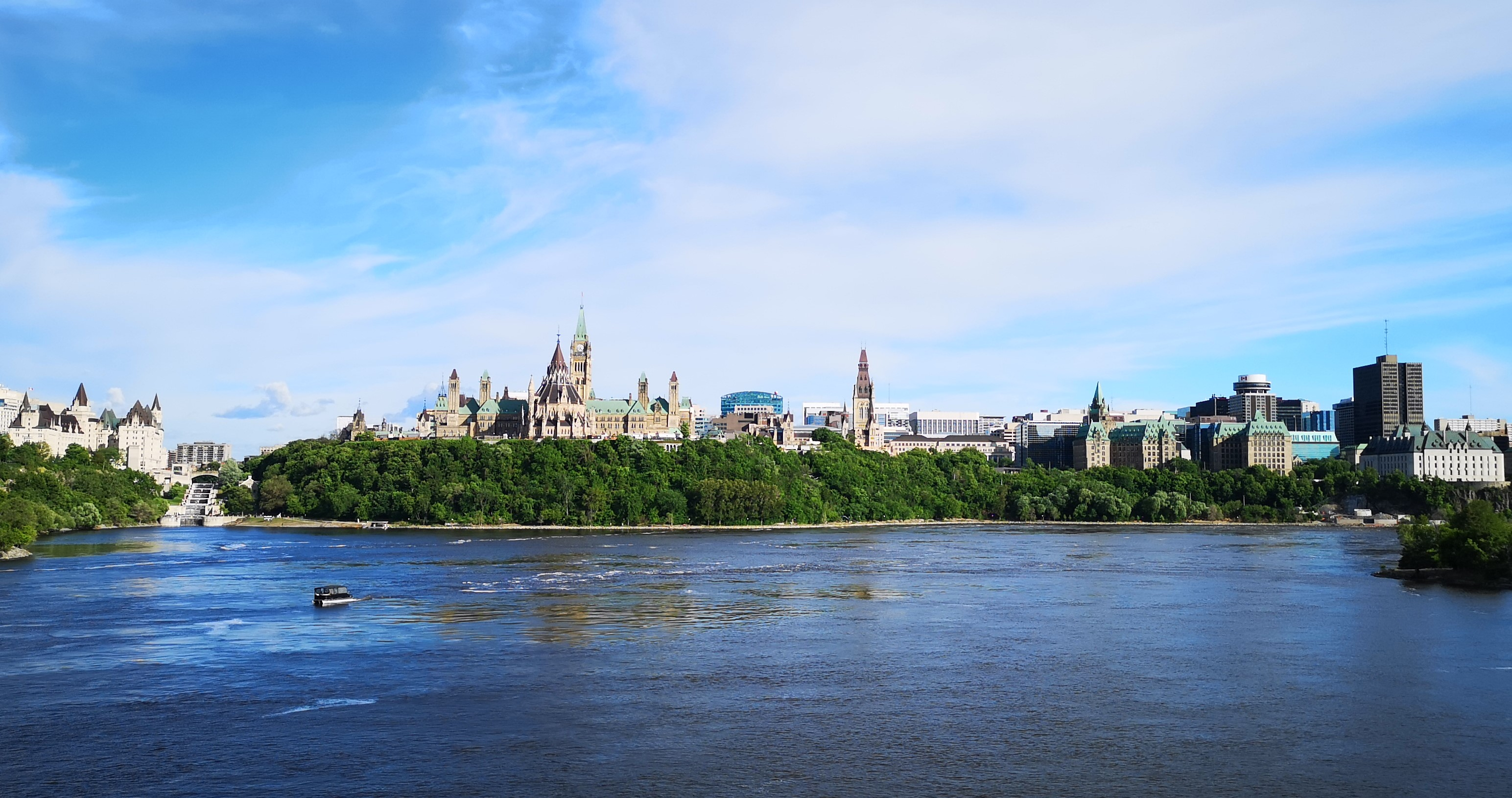 A view of Ottawa from the Alexandra Bridge in Gatineau, Quebec. From Left to right: the Chateau Laurier, the Rideau Canal, Parliament Hill (East Block, Centre Block [with the Peace Tower and the Library of Parliament] and West Block), the Confederation Building, and the Supreme Court of Canada